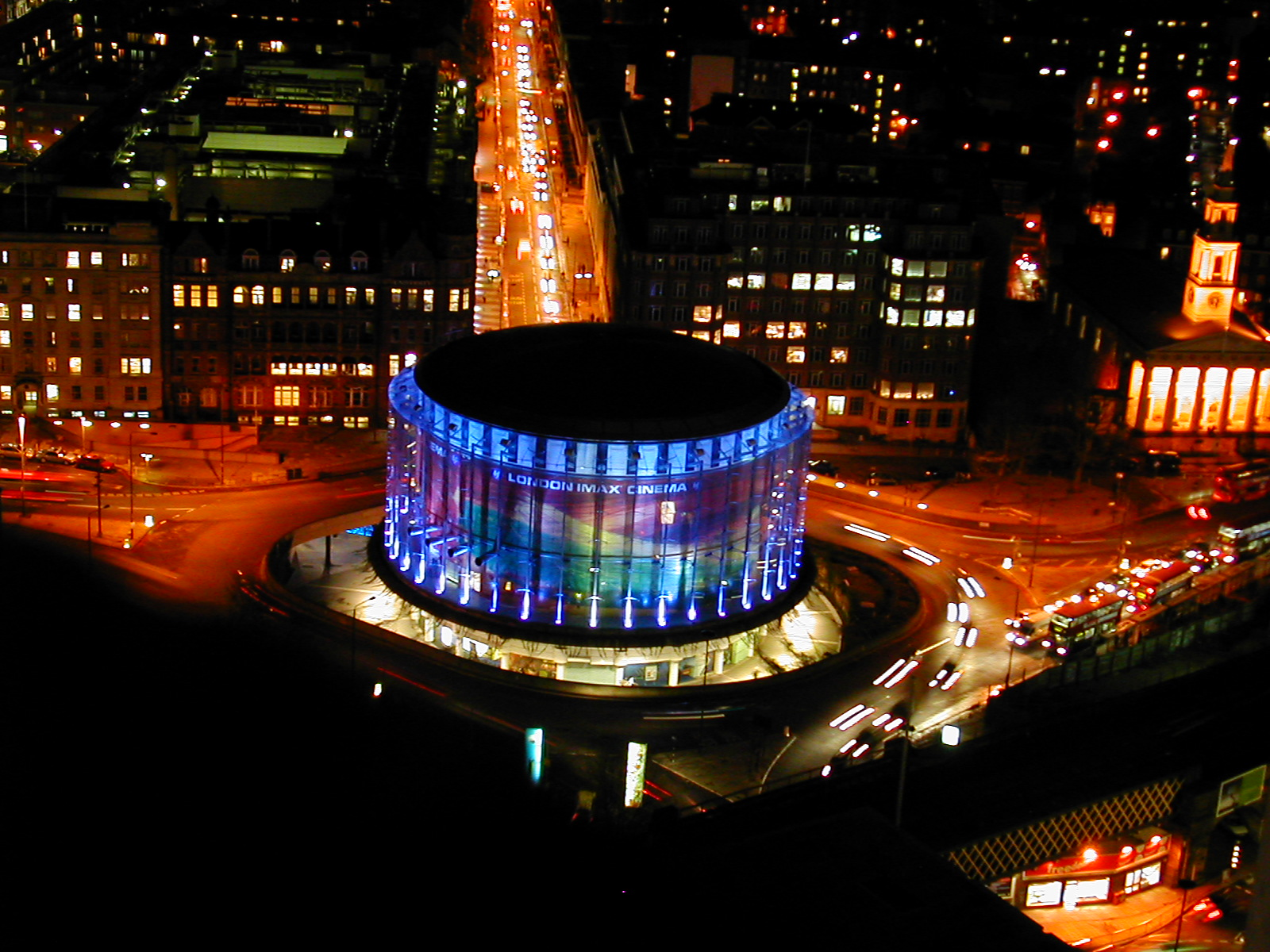 Taken by me, 2003-01-28. Attribute to "Robert Aleck